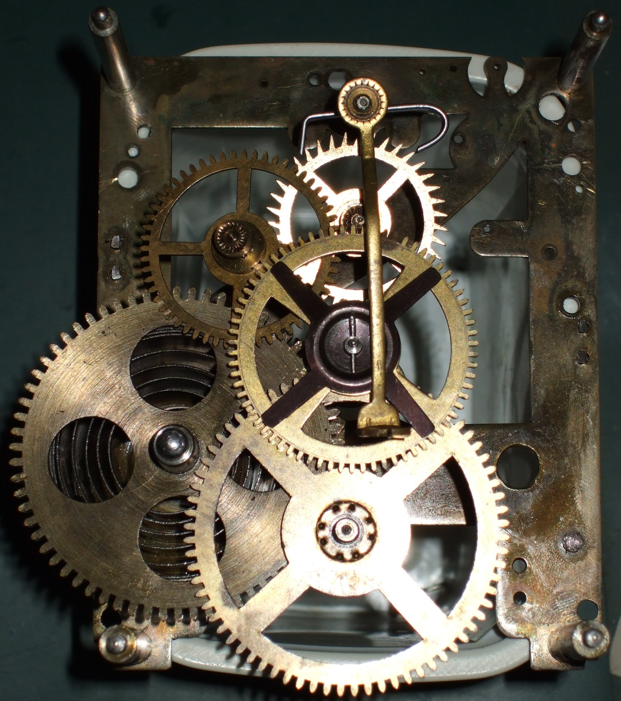 This is an example of a clockwork. Further photos show also the partly disassembled clockwork. The clockwork shows some defects and some tiny parts are missing. WARNING: Do not disassemble clockworks by yourself, unless you know how to take the necessary precautions. Disassembly of a clockwork without such precautions may cause serious injury to you or other persons. You may also destroy the clock. These pictures are not presented to inspire you to disassemble a clock, but to educate you about the clockwork!